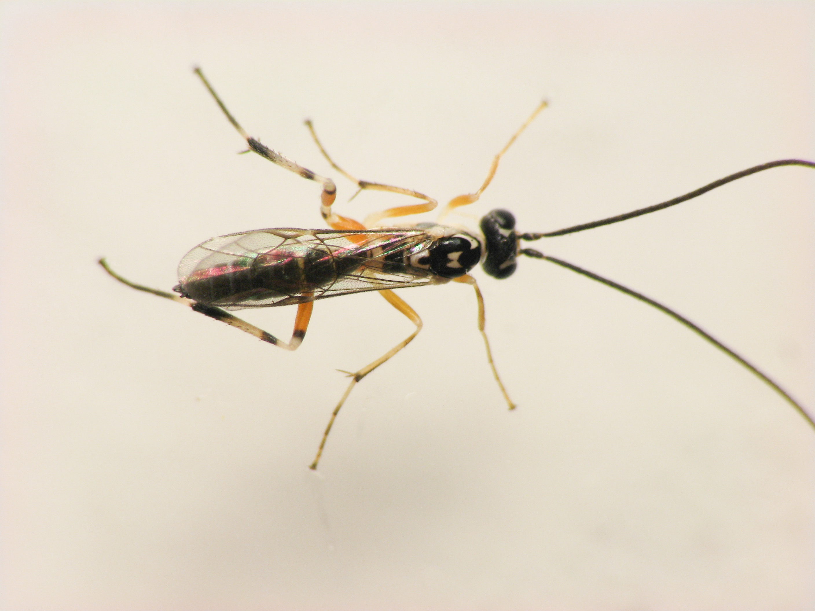 Ichneumon wasp, Phytodietus, male. Size: 5 mm. Pennypack Restoration Trust, Montgomery County, Pennsylvania, USA.